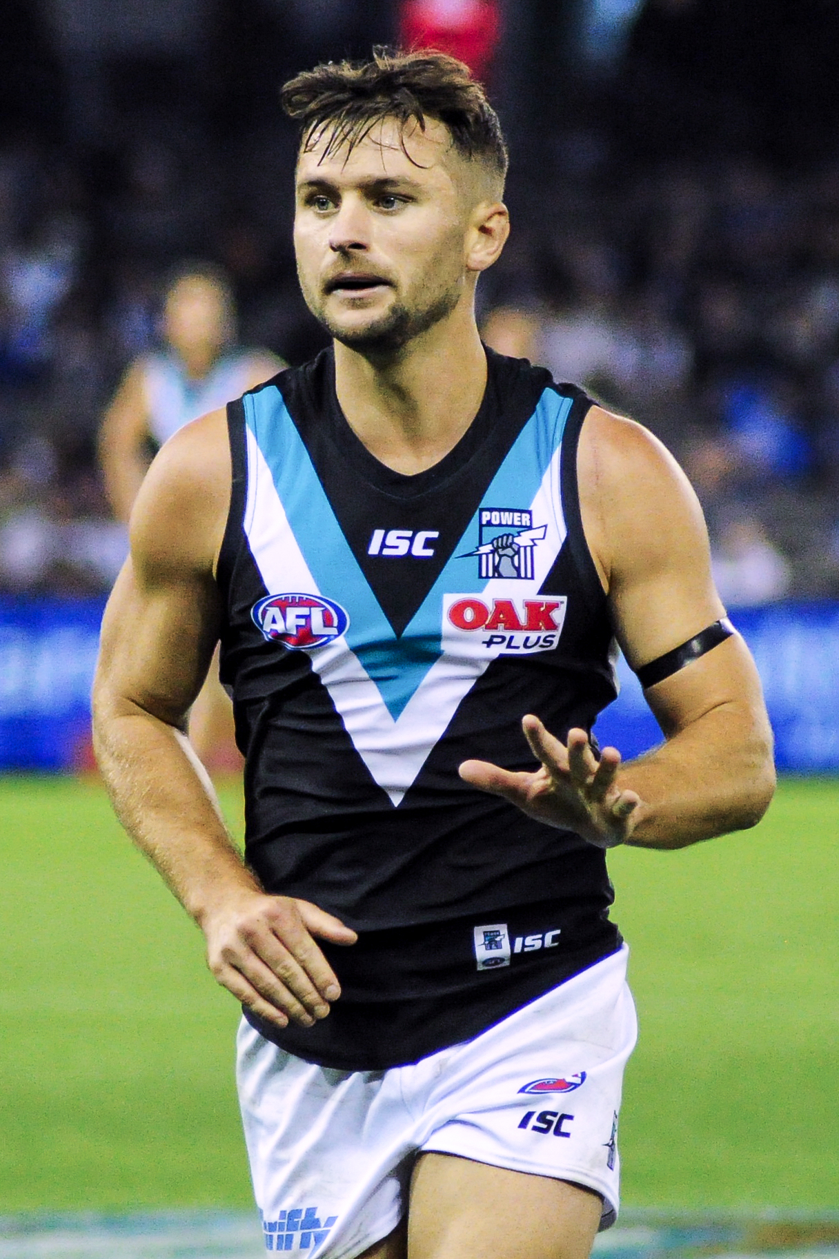 Sam Gray during the AFL round six match between North Melbourne and Port Adelaide on Saturday, 28 April 2018 at Etihad Stadium in Melbourne, Victoria.